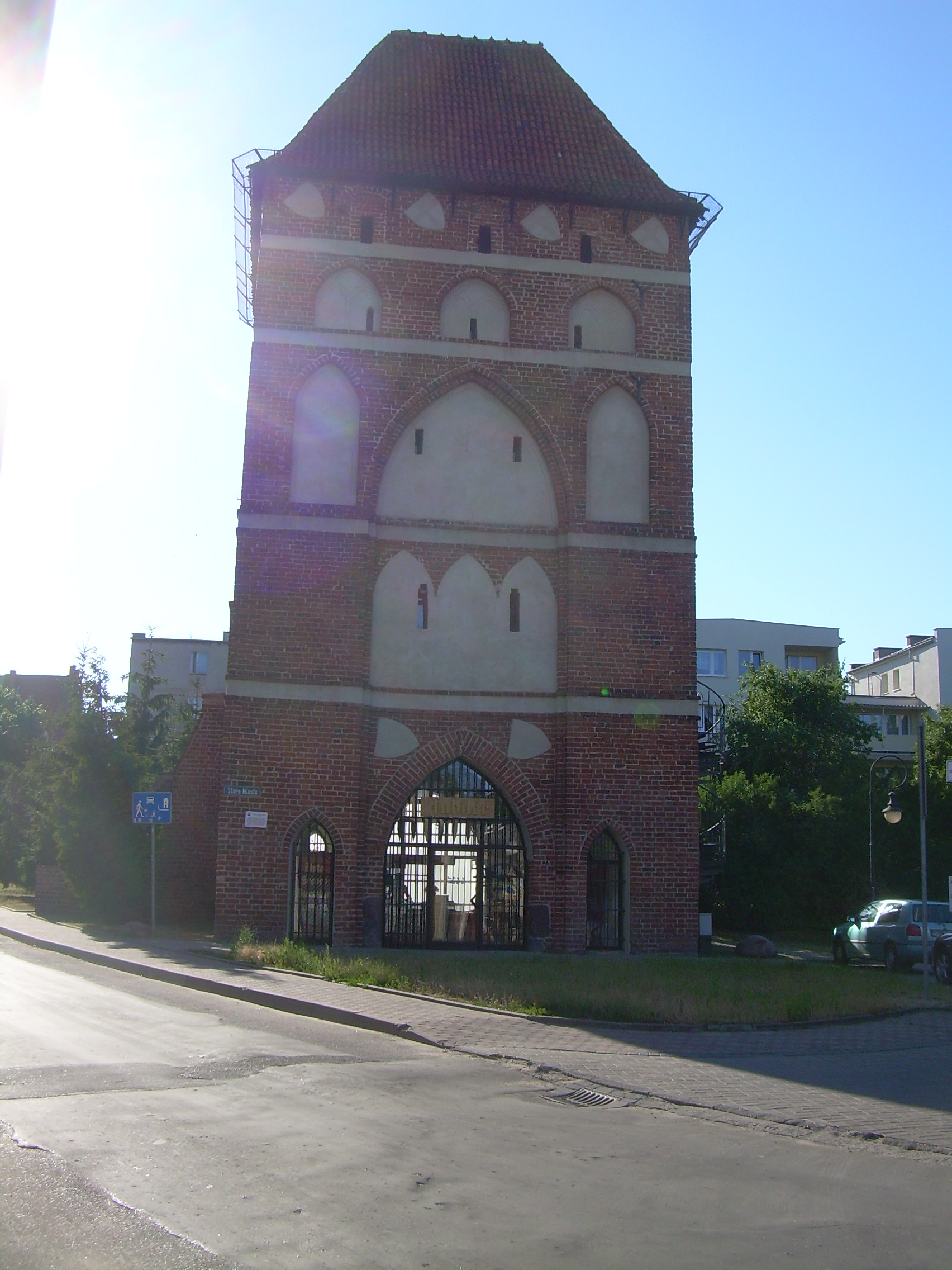 Malbork Garncarska Gate.